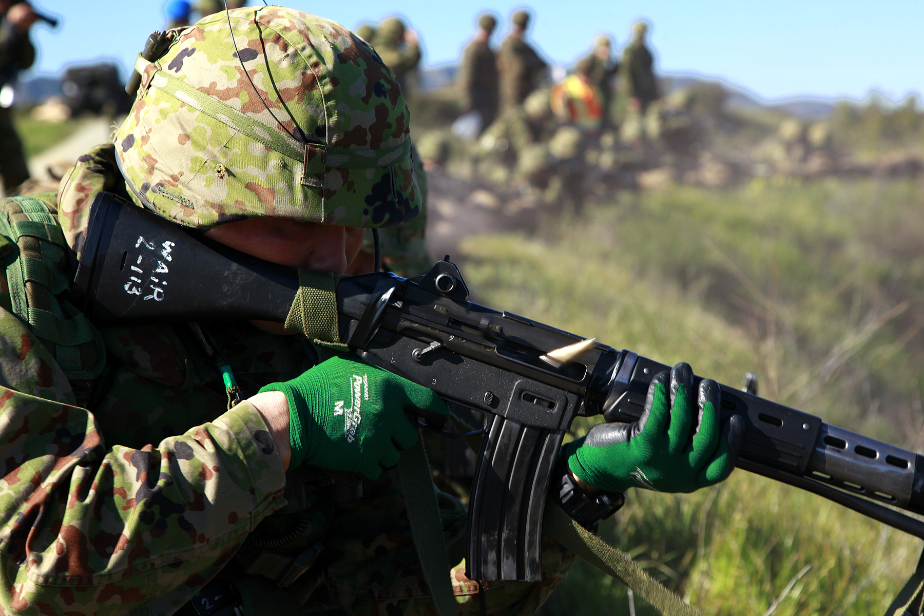 A soldier with the Japanese Ground Self Defense Force fires at a target at Range 222 on Camp Pendleton, Jan. 25. The training was planned in a crawl, walk, run format, designed to build confidence in the soldiers’ with their weapons. The 5-day evolution was a part of Exercise Iron Fist 2012, a bilateral training opportunity for the 15th Marine Expeditionary Unit and the JGSDF. (U.S. Marine Corps photo by Cpl. John Robbart III)